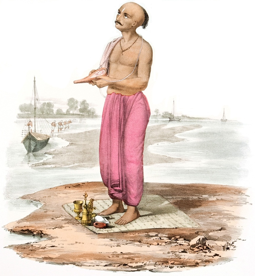 Image in The Sundhya, or, the Daily Prayers of the Brahmins